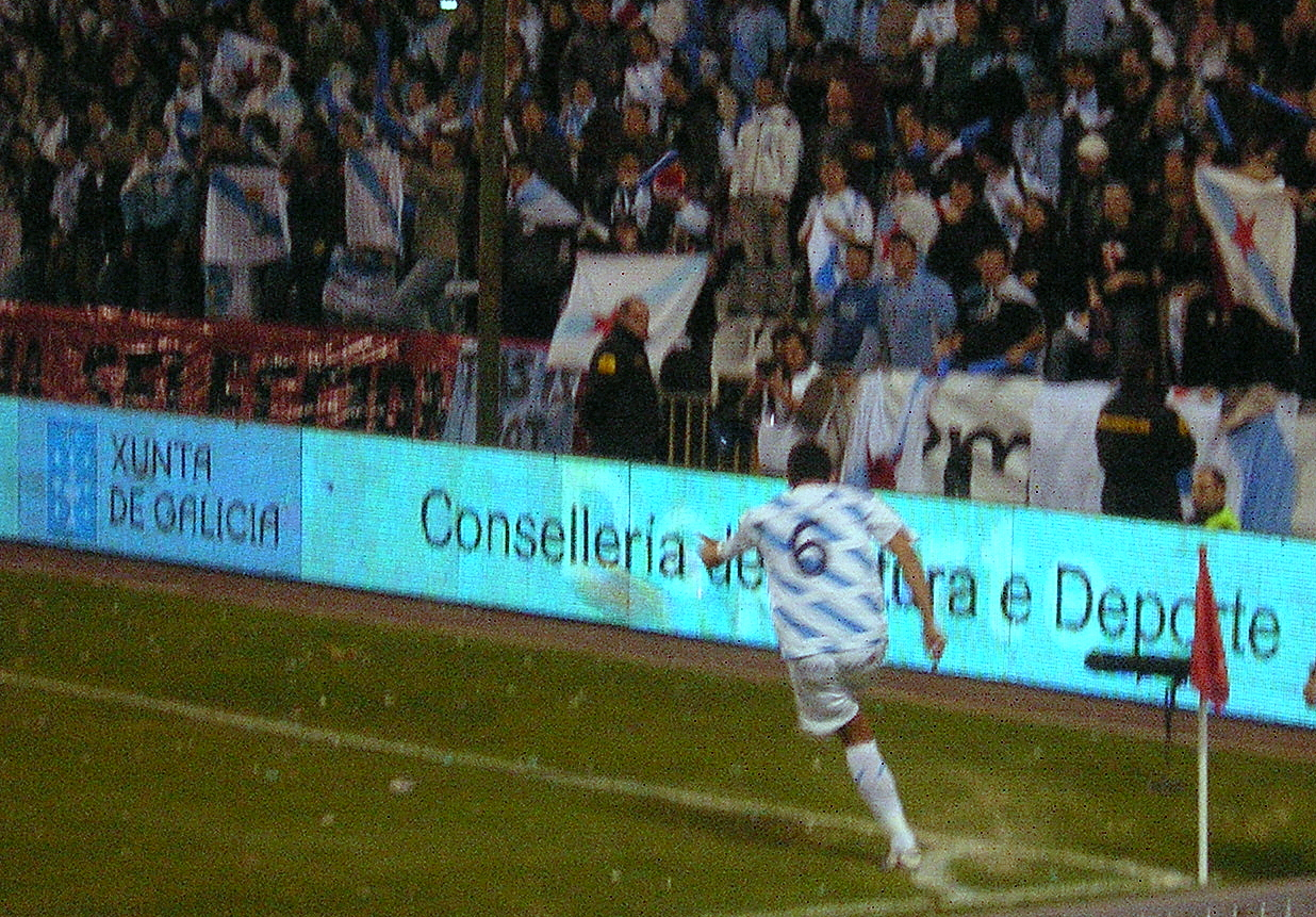 Viqueira during Galicia - Equador on December 28, 2006